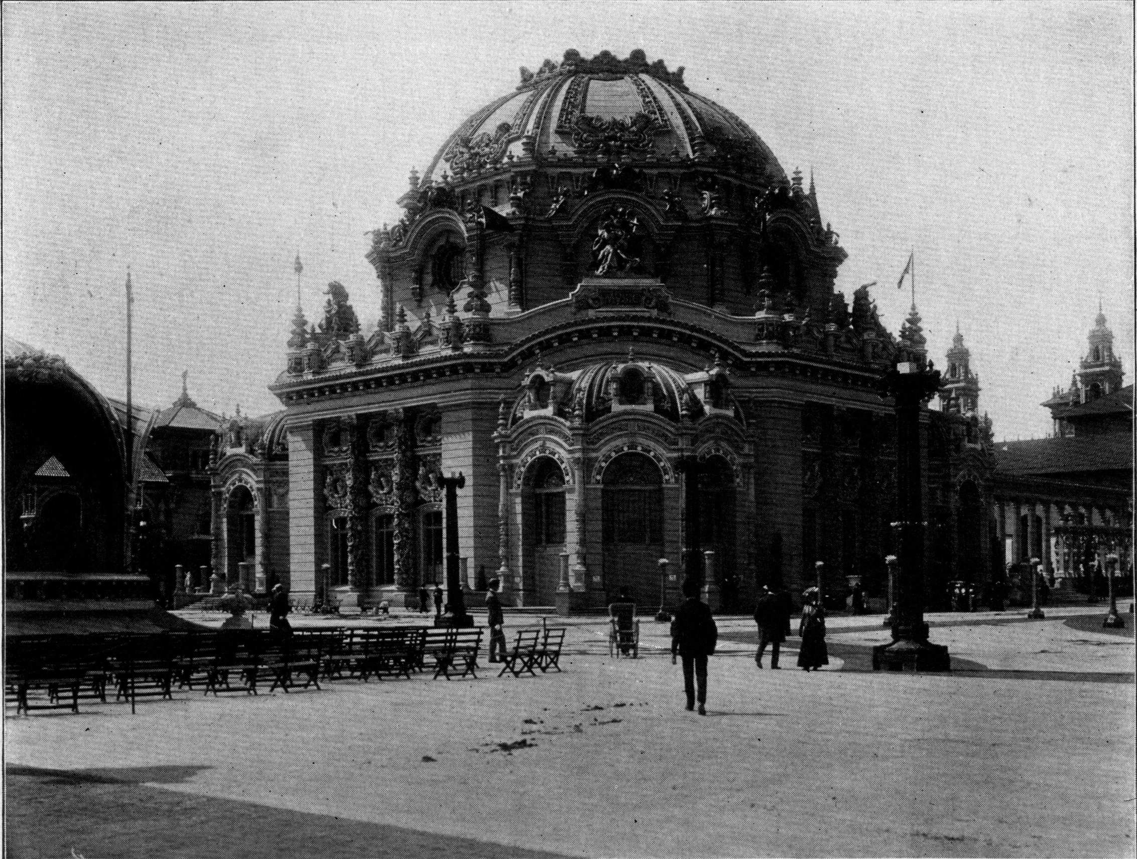 Original caption: "Temple of Music - The architecture of the Temple of Music is most ornate, and its effectiveness is increased by the sculptural groups, by Isidore Konti, over the four pediments, and the elaborate color scheme. The architects of the Temple of Music are Esenwein & Johnson. It has a dome 180 feet high, and an organ which cost $15,000. Its seating capacity is 22,000."